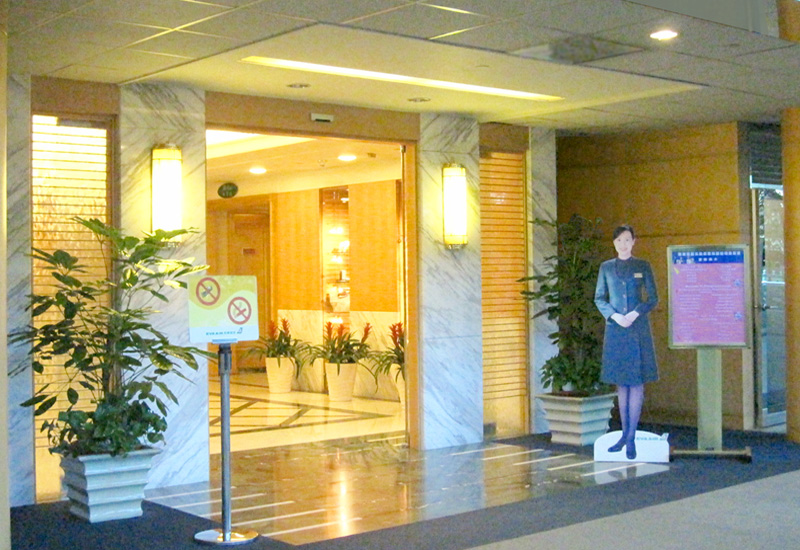 EVA Air's Evergreen Lounge